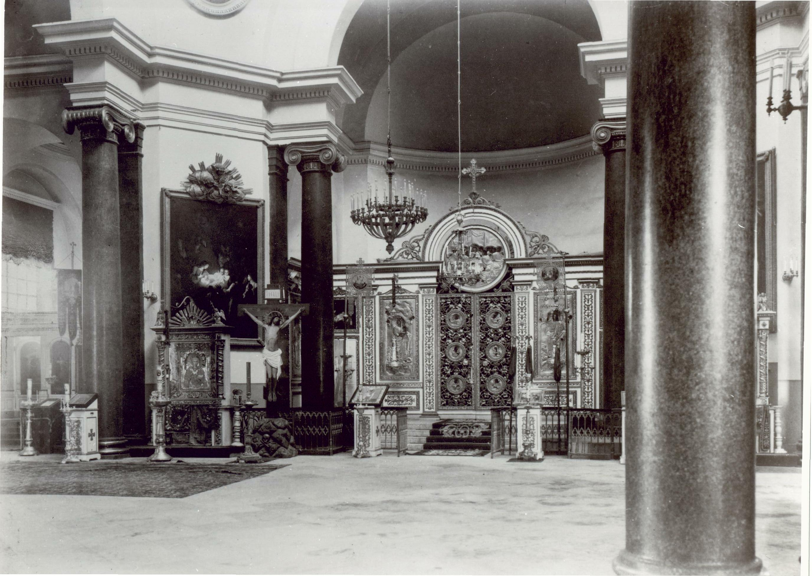 Tsarskoye Selo (Russia)